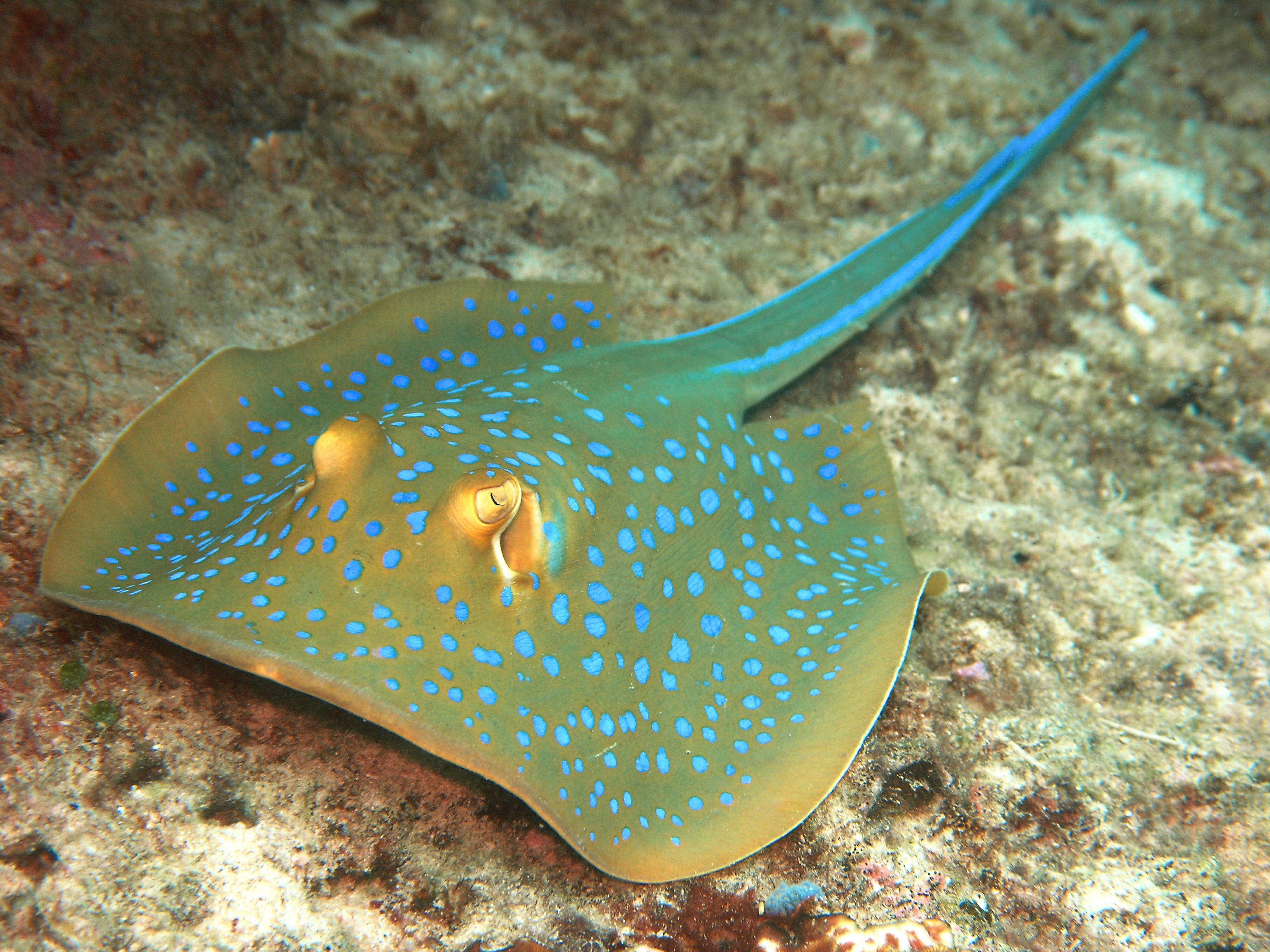 Image of a Bluespotted ribbontail ray. Taeniura lymma. Taken off Dayang, Malaysia.